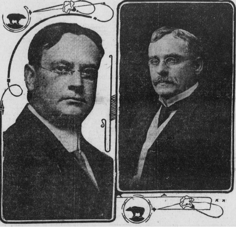 Hiram Johnson, newly elected governor of California, is on the left, and Alfred Joseph Wallace, the lieutenant governor is on the right. The headline in the Los Angeles Herald of November 9, 1910, was "Hiram W. Johnson and A.J. Wallace, Who Headed Victorious Republican Ticket at the Polls Yesterday," and the photo cutline was "AT LEFT - HIRAM JOHNSON ELECTED GOVERNOR. AT RIGHT - A.J. WALLACE ELECTED LIEUTENANT GOVERNOR"